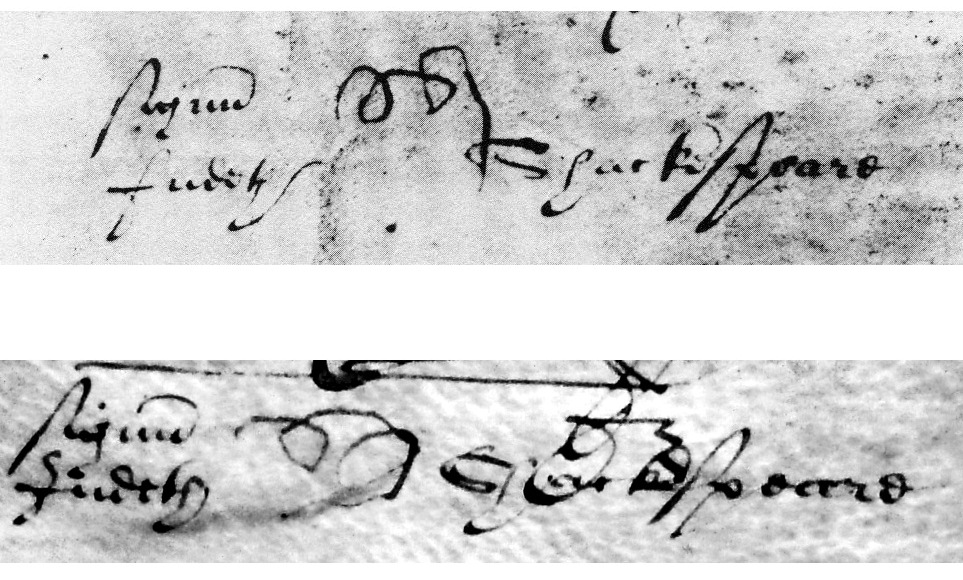 Two examples of the mark of Judith Shakespeare from a deed she witnessed in 1611.